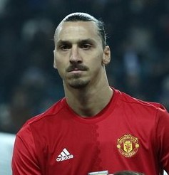 Zlatan Ibrahimović